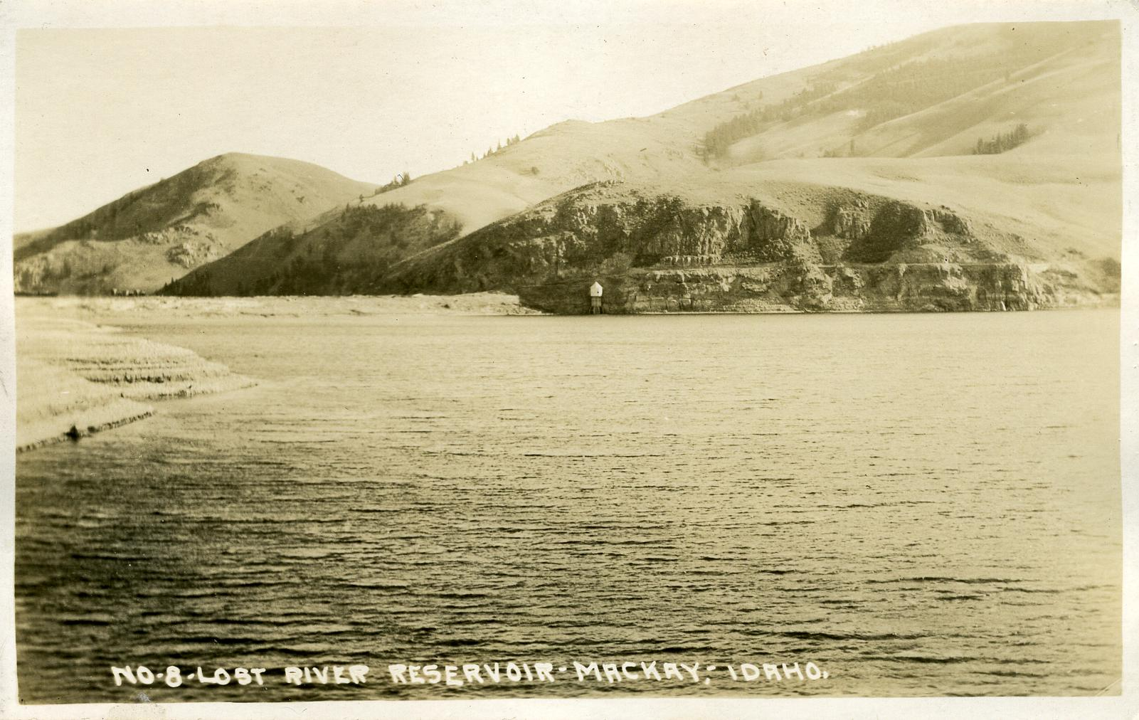 Image Title: Lost River (Mackay) Reservoir Date: c.1920 Place: Lost River, Mackay, Idaho Description/Caption: No. 8. Lost River Reservoir - Mackay, Idaho. Medium: Real Photo Postcard (RPPC) Photographer/Maker: Wesley Andrews, Inc., Publishers, Baker, Oregon Cite as: ID-D-0003, Restrictions: There are no known U.S. copyright restrictions on this image. While the digital image is freely available, it is requested that be credited as its source. For higher quality reproductions of the original physical version contact restrictions may apply.